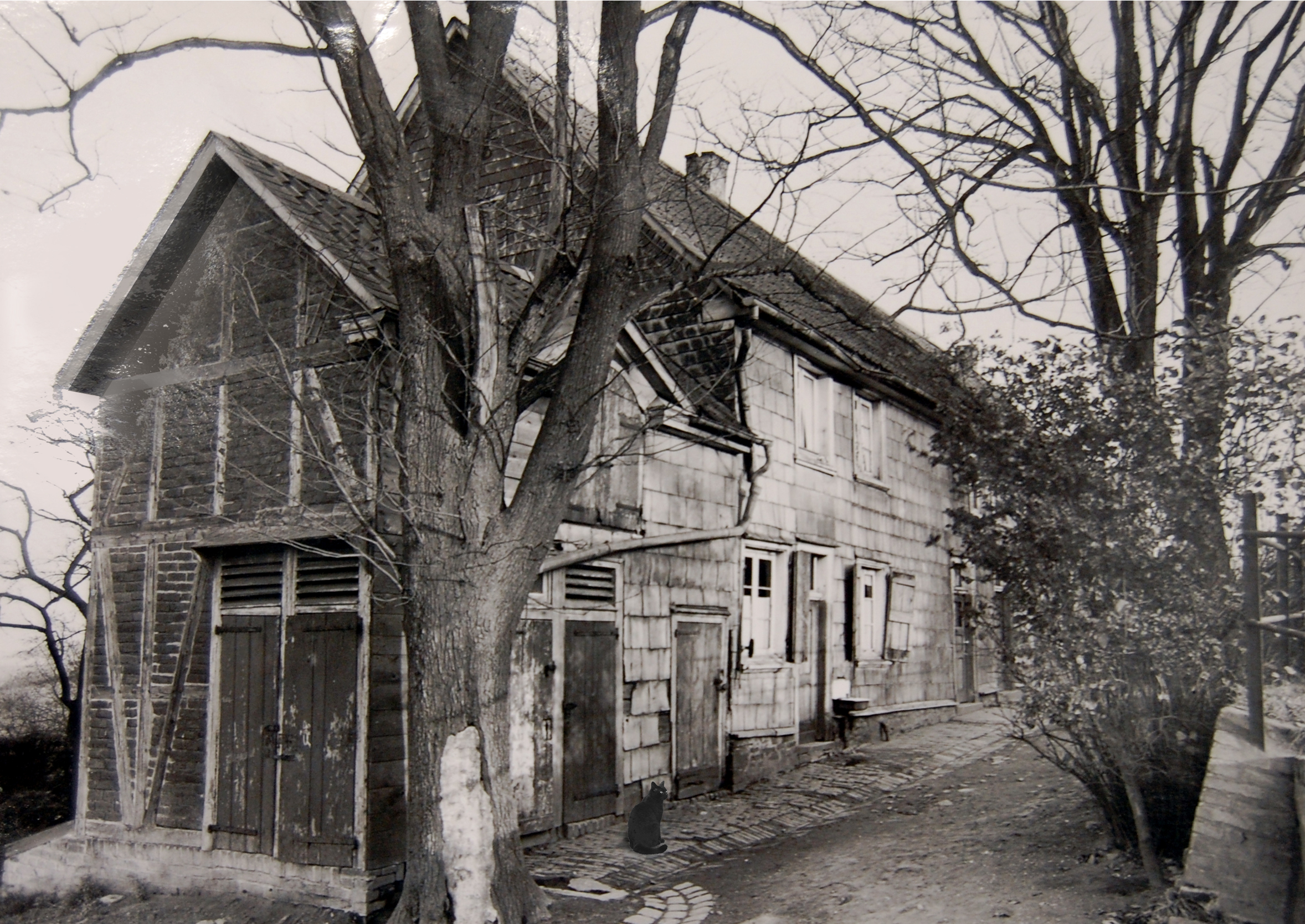 The old School in Vossnacken in 1955, shortly before the move to the new building.